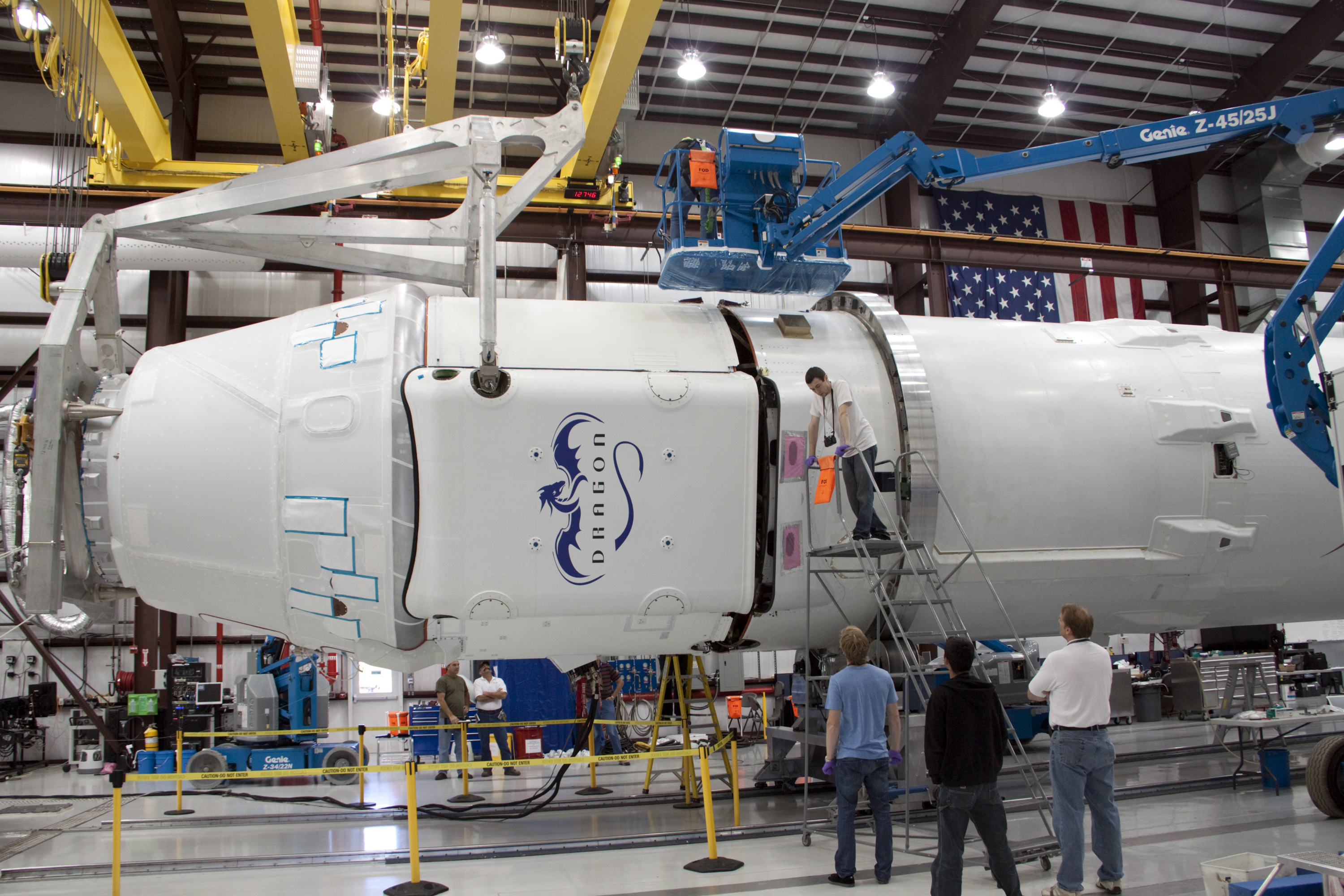 APE CANAVERAL, Fla. – In a processing facility at Space Launch Complex-40 on Cape Canaveral Air Force Station in Florida, Space Exploration Technologies technicians prepare to attach the Dragon capsule to the second stage of the company’s Falcon 9 rocket. Known as SpaceX, the launch will be the company's second demonstration test flight for NASA's Commercial Orbital Transportation Services program, or COTS. During the flight, the capsule will conduct a series of check-out procedures to test and prove its systems, including rendezvous and berthing with the International Space Station. If the capsule performs as planned, the NanoRacks-CubeLabs Module-9 experiments and other cargo aboard Dragon will be transferred to the station. The cargo includes food, water and provisions for the station’s Expedition crews, such as clothing, batteries and computer equipment. Under COTS, NASA has partnered with two private companies to provide resupply missions to the station. The launch is scheduled for 9:38 a.m. EDT on May 7.